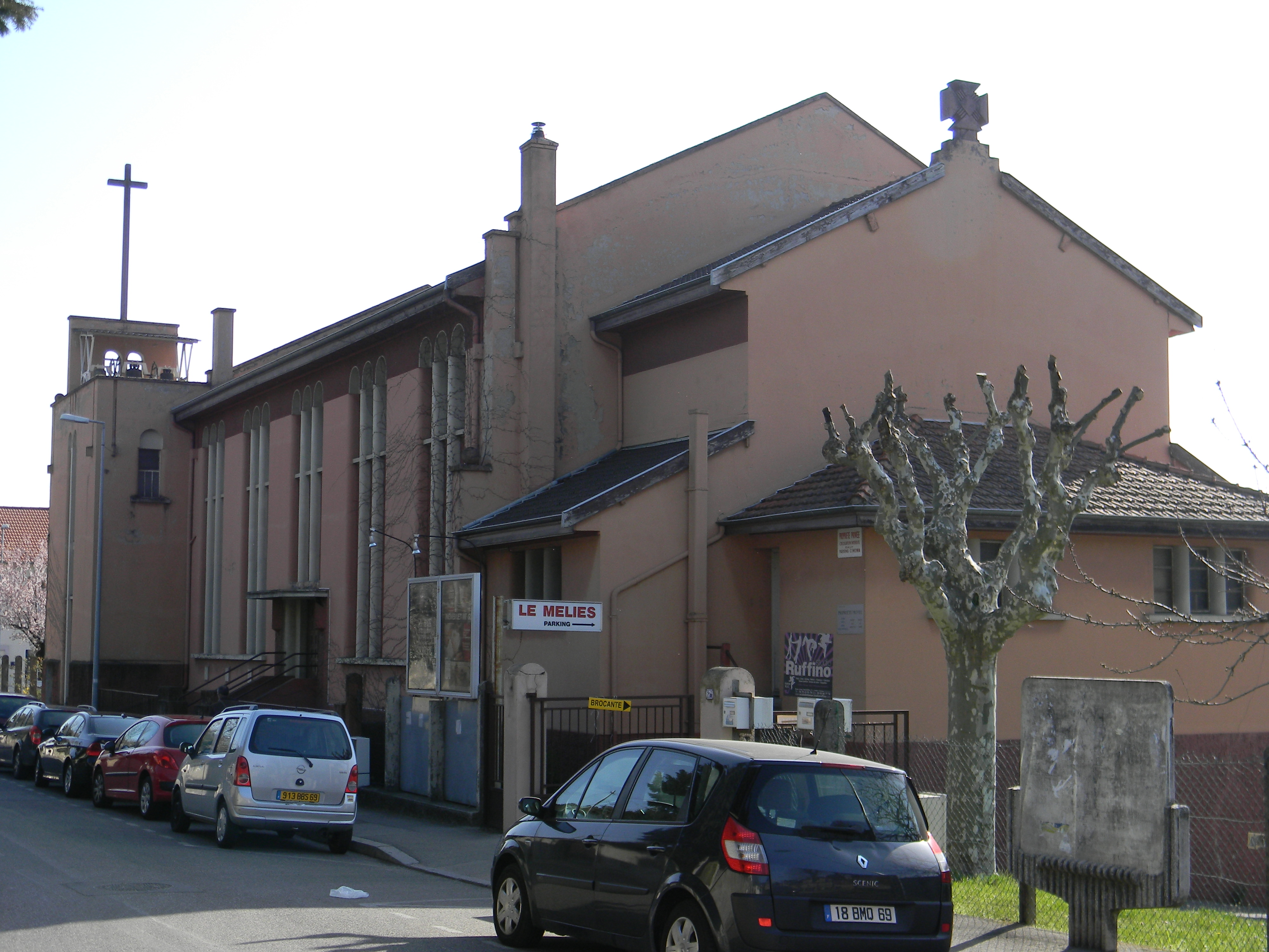 "Le Melies", theatre in Caluire-et-Cuire